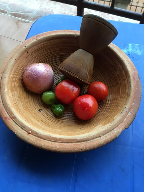 The Asanka, earthenware dish, is a Ghanaian grinding pot that is made out of clay with ridges inside. It comes with a wooden masher called eta or tapoli in the local language.It is commonly referred to as traditional blender and appropriately used where there is no electricity.It is also called pounding pot.